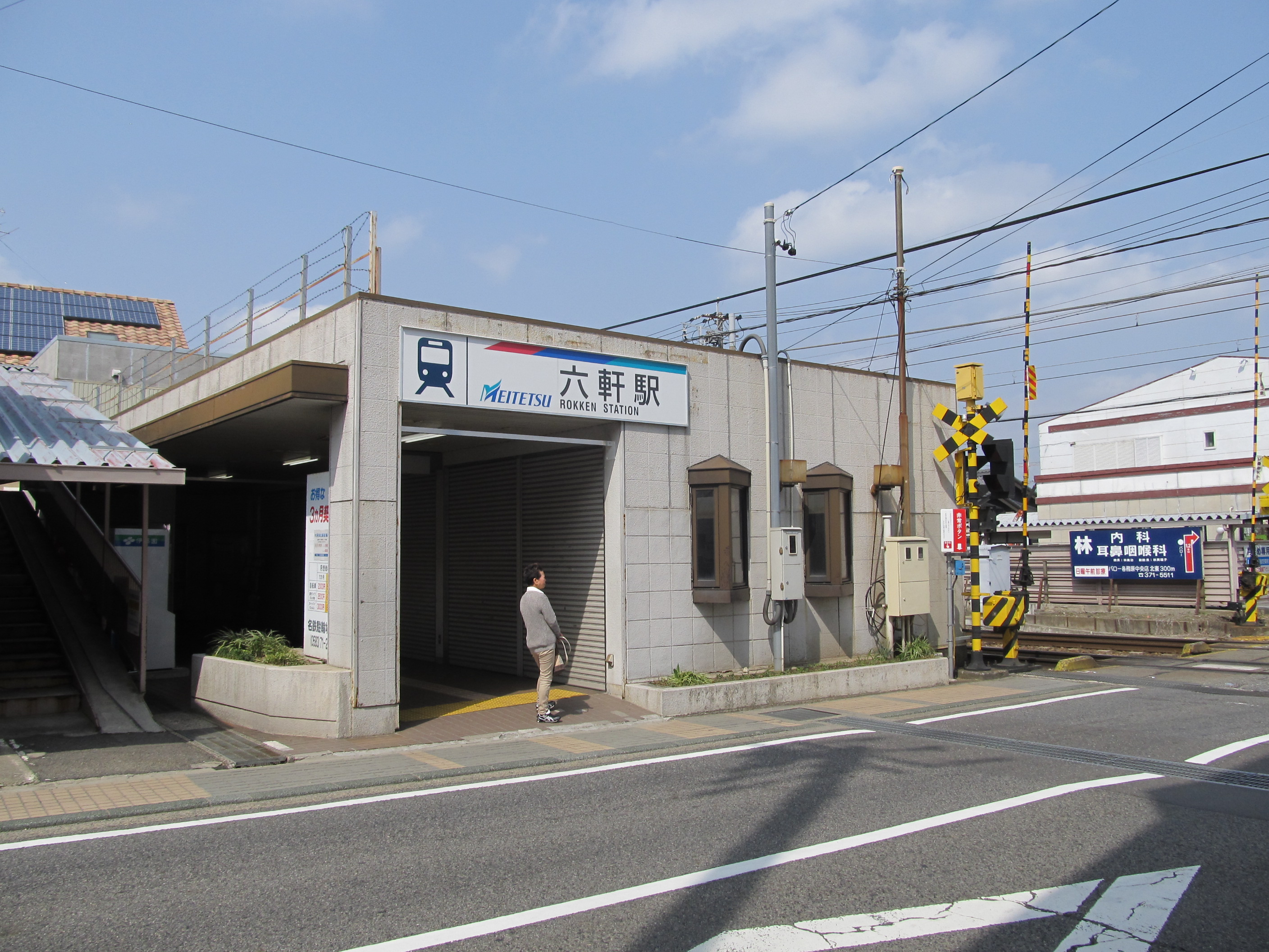 Nagoya Railroad Kakamigahara Line Rokken Station Building